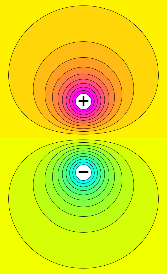 Voltage distribution between two electrically charged spheres (purple = positive voltage, blue = negative voltage). The black curves show equipotential contours.